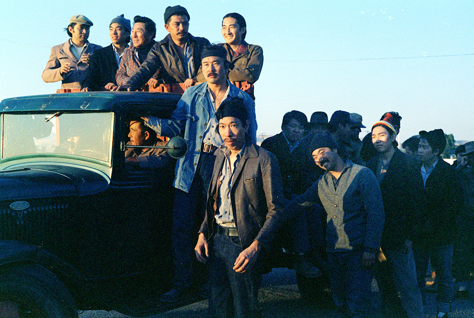 Actor Mako (fourth from left in truck) on location for John Korty's 1976 film, "Farewell to Manzanar." photo by Nancy Wong